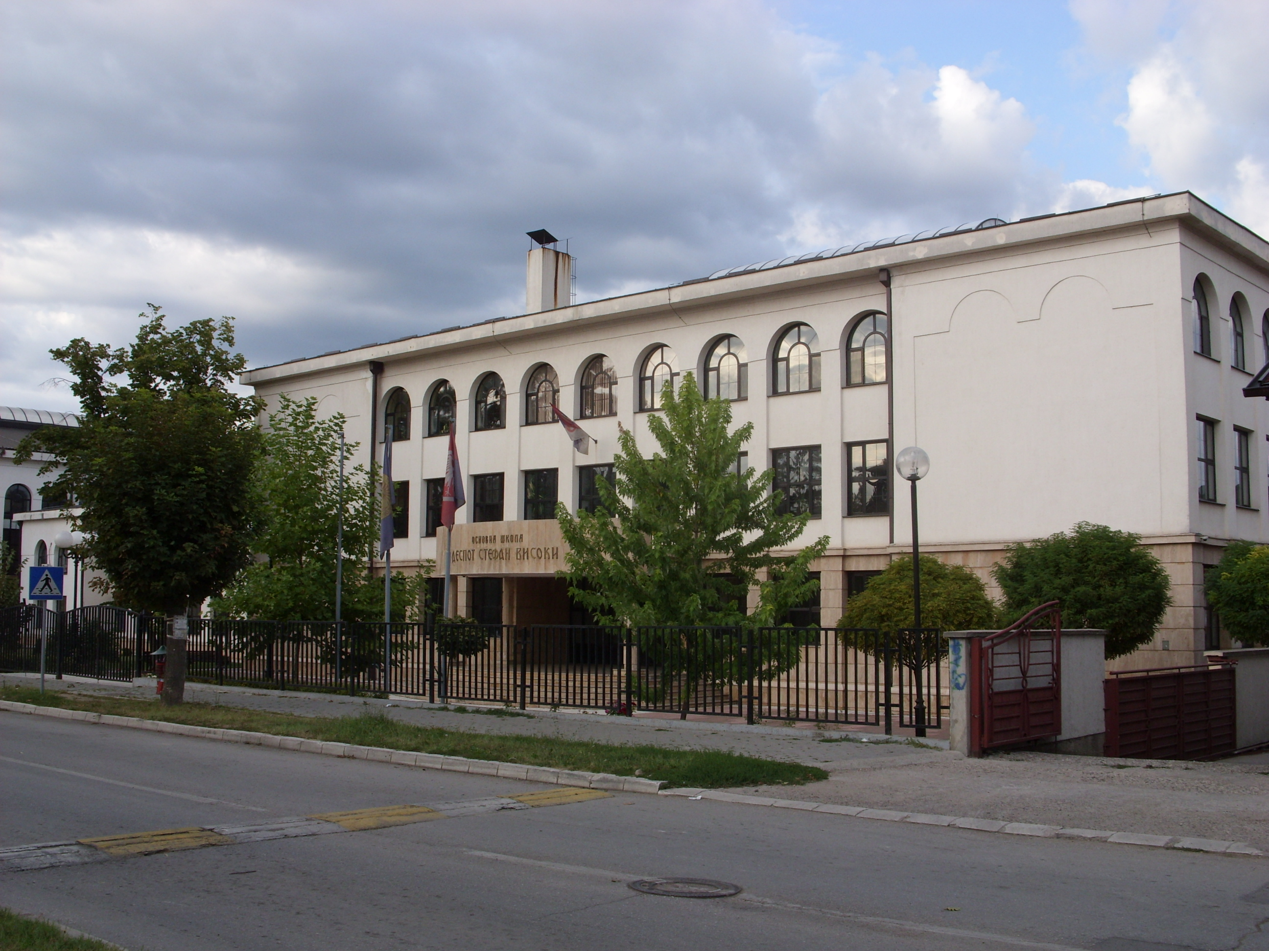 Elementary school in Despotovac, Serbia. Hornjoserbsce: Zakładna šula w serbiskej Despotovaće.